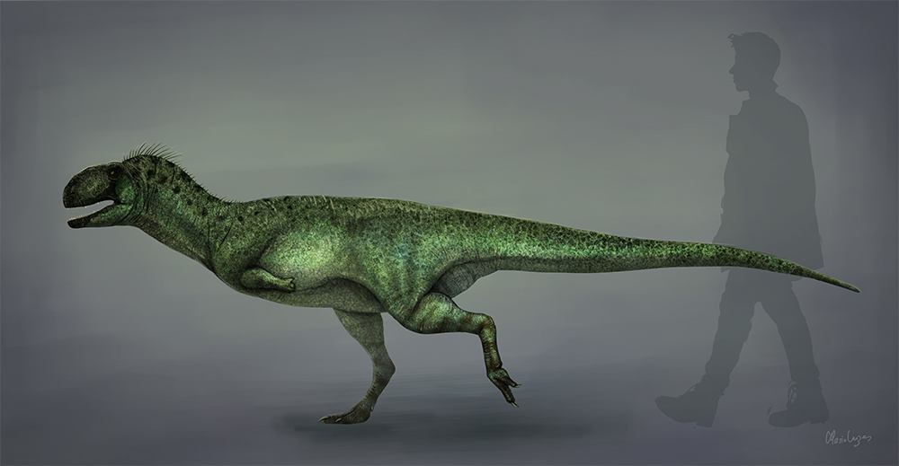 Tarascosaurus live restoration (2020)